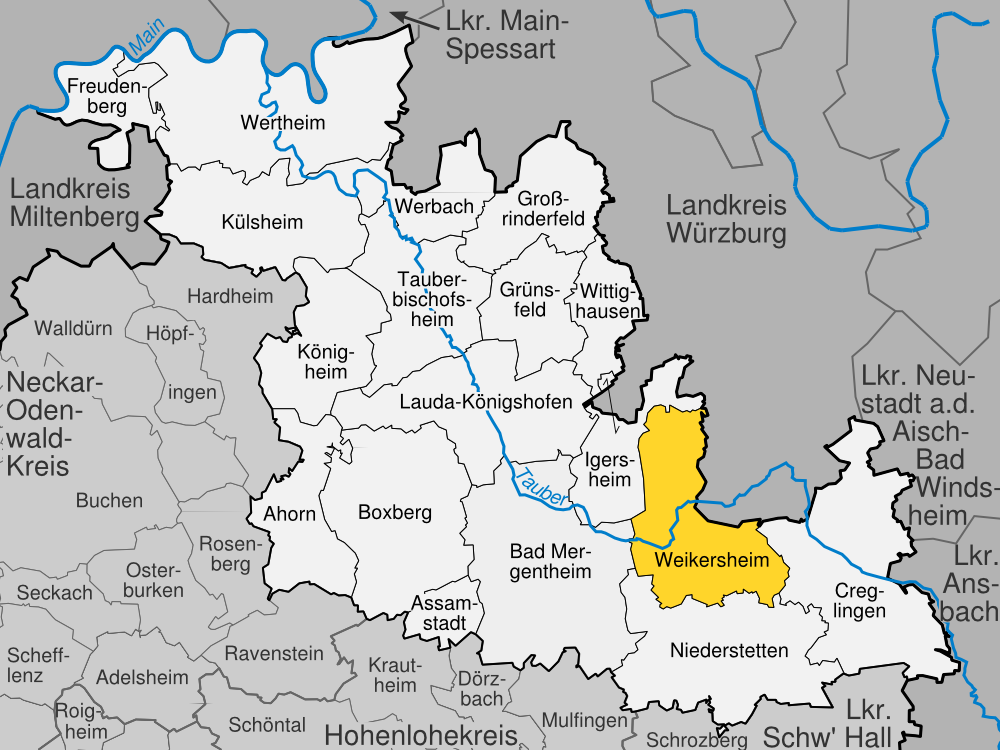 position of Weikersheim within the Main-Tauber-Kreis, Baden-Württemberg, Germany